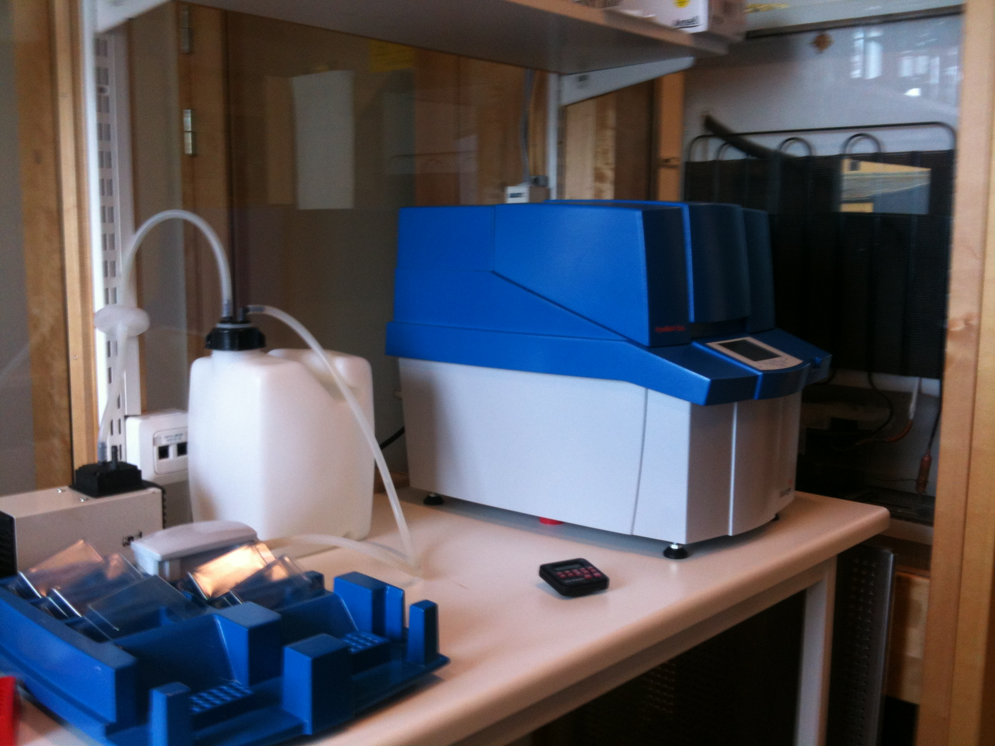 Pyrosequencer with working station